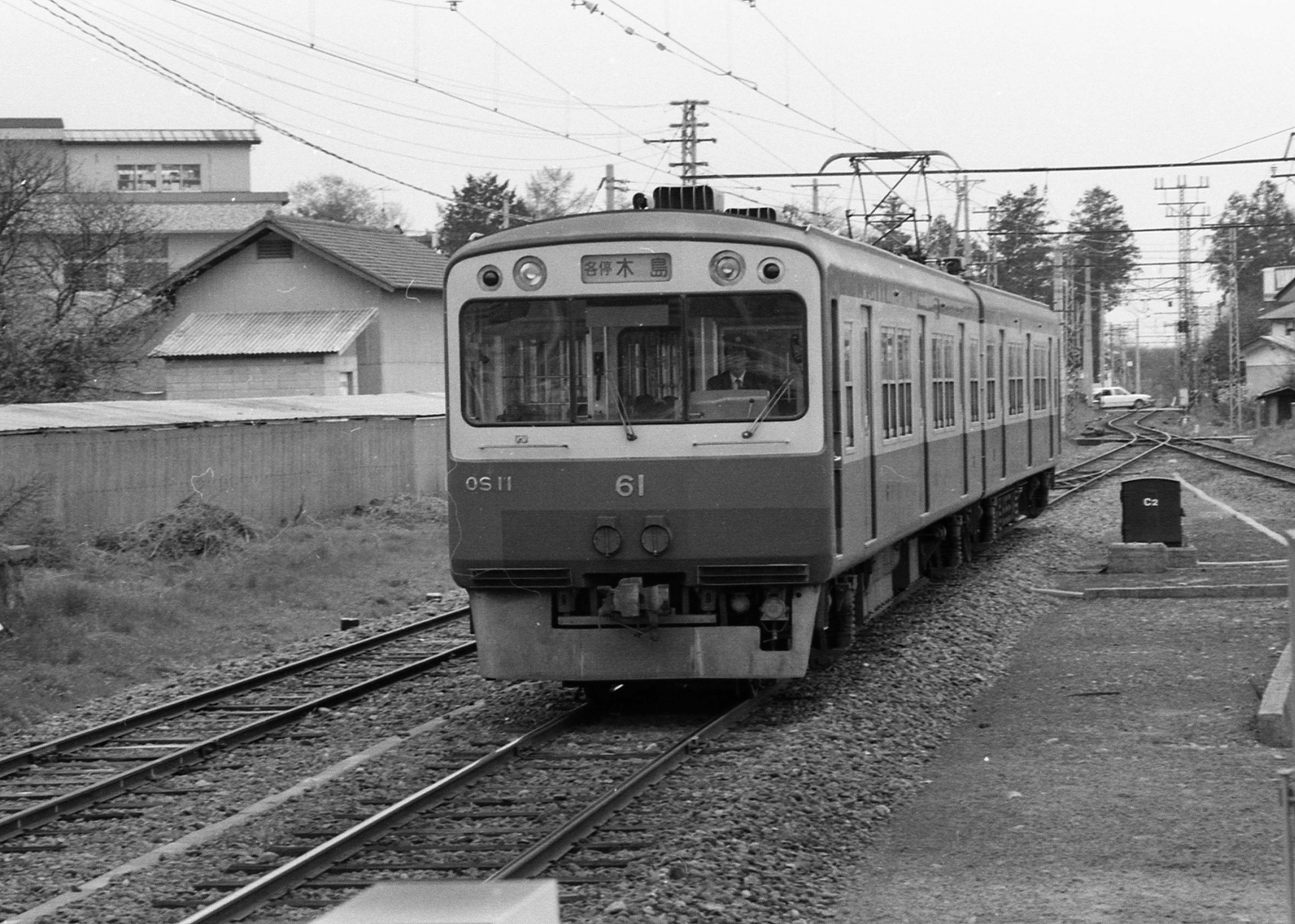 Nagaden 61 at Obuse